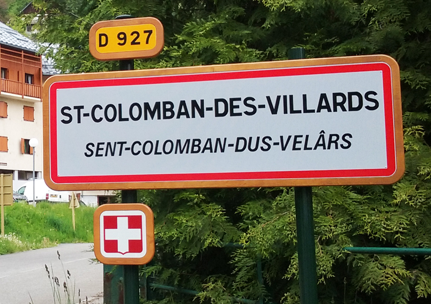 Bilingual place-name (French-Arpitan) in Savoy.